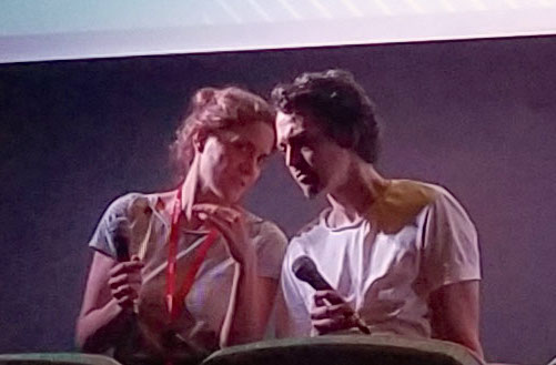 Johannes Nyholm (right) presenting 'Koko-di Koko-da' at Buenos Aires International Festival of Independent Cinema 2019. Next to him, the interpreter doing simultaneous translation into Spanish. Photograph by Federico Gatto, 2019.